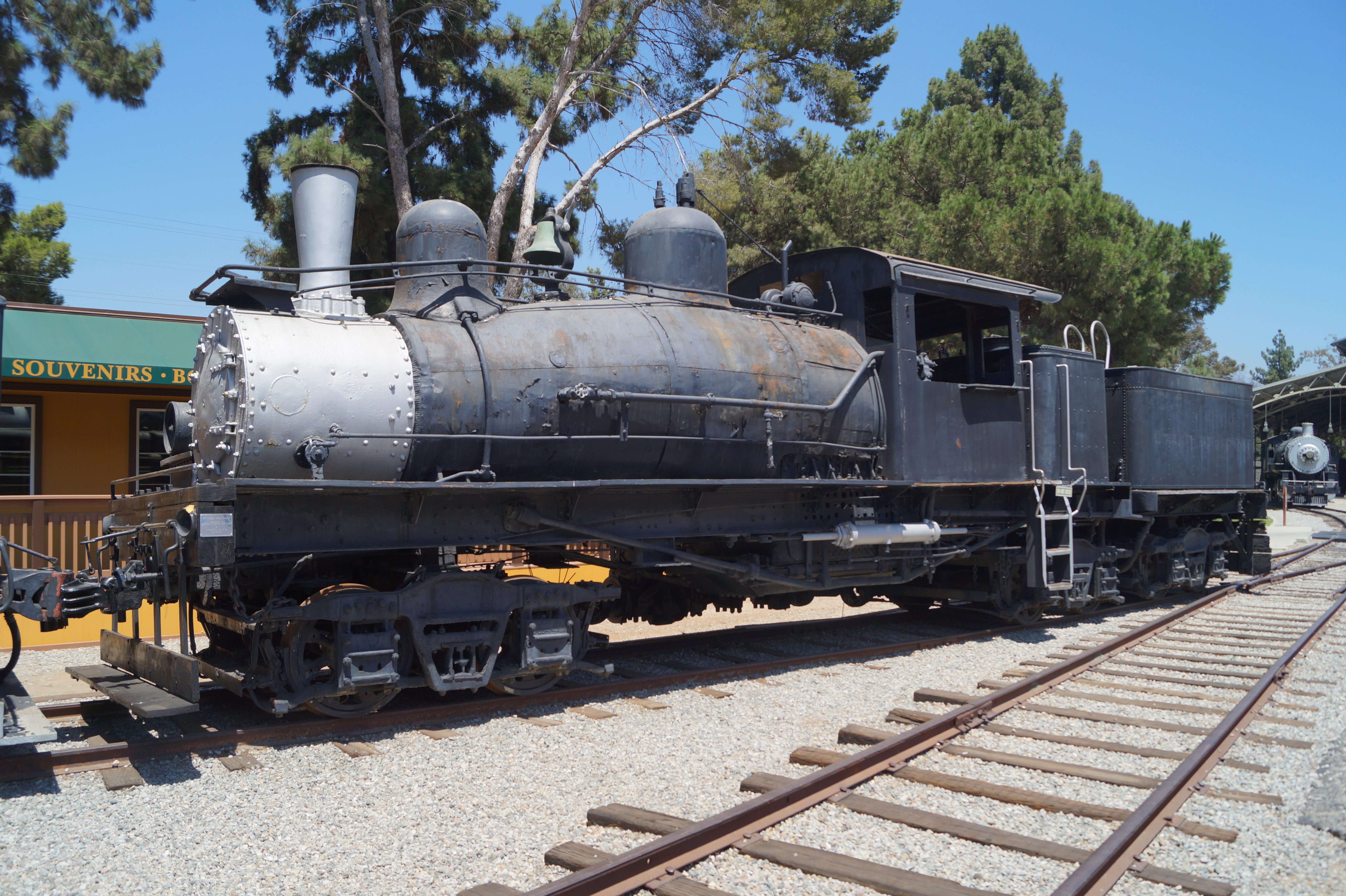 Travel Town Museum is a transport museum dedicated in the northwest corner of Los Angeles, California's Griffith Park. The history of railroad transportation in the western United States from 1880 to the 1930s is the primary focus of the museum's collection, with an emphasis on railroading in Southern California and the Los Angeles area.